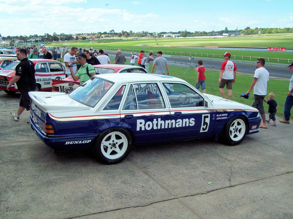 1987 Rothmans sponsored Holden VL Commodore SS Group A of Allan Moffat & John Harvey, winner of the 1987 Monza 500, Round 1 of the 1987 World Touring Car Championship. Pictured @ 2009 Historic Sandown